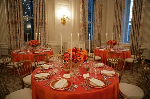 This is a view of the table settings in the State Dining Room, for the Thursday, Nov. 10, 2005 White House dinner, celebrating the National Endowment for the Arts and National Endowment for the Humanities 40th Anniversary. Chosen by Mrs. Laura Bush, the centerpieces are autumnal roses displayed in vermeil vases to compliment the Reagan China.